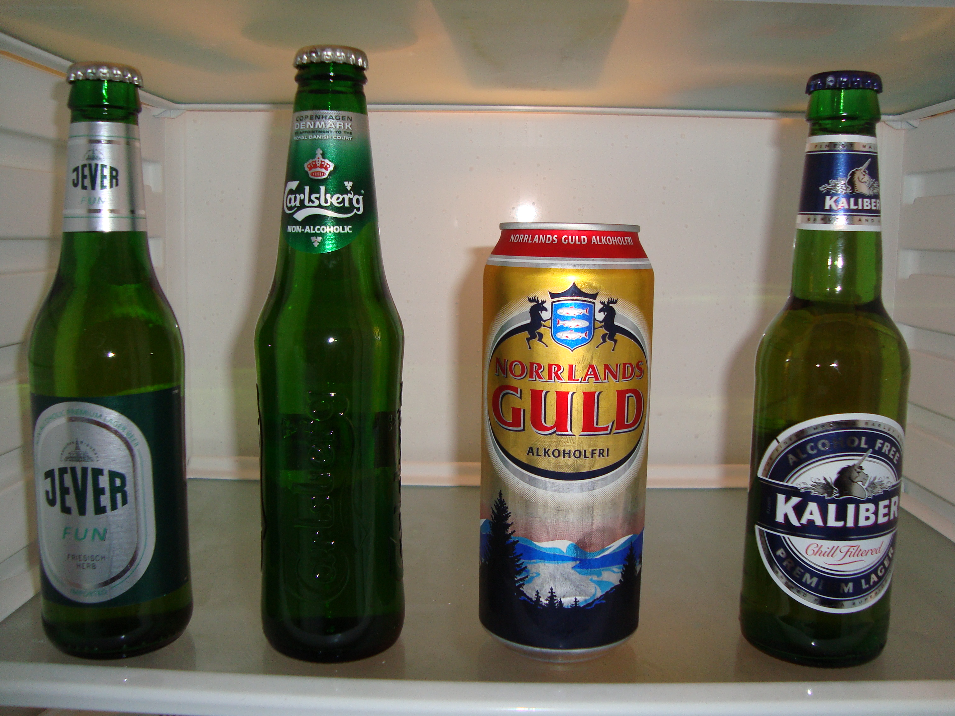 Four different European brands of non-alcoholic (less than 0,5 volume percent) beers sold in Sweden. From left to right: Jever Fun (Friesishes Brauhaus, Germany), Carlsberg Non-alcoholic (Carlsberg, Denmark), Norrlands Guld Alkoholfri (Spendrups, Sweden), Kaliber (Guinness, Ireland).